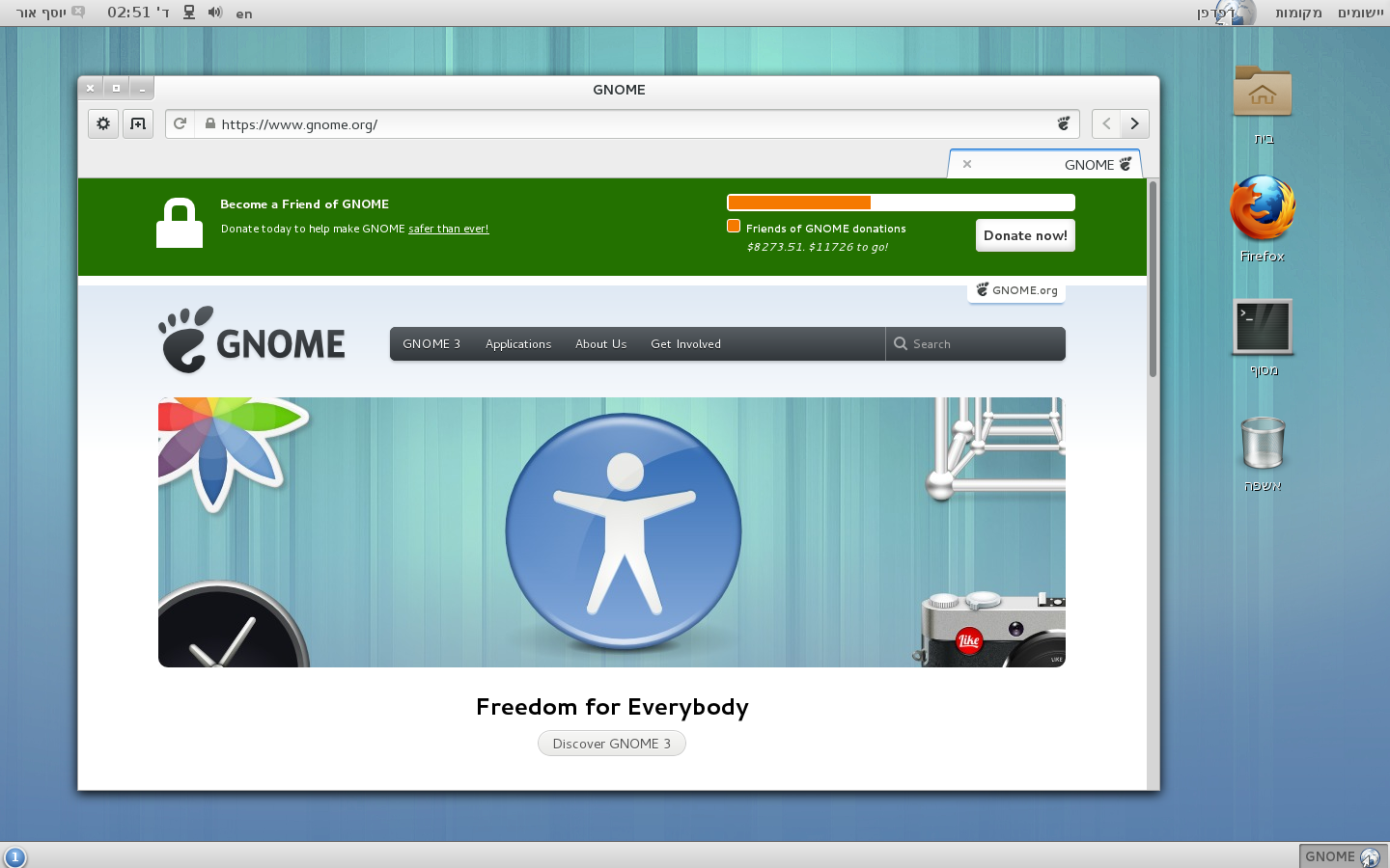 GNOME Shell Classic 3.8 in Hebrew